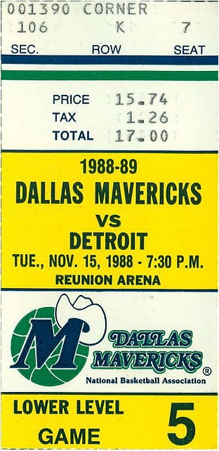 A ticket for a November 15, 1988 National Basketball Association game featuring the Detroit Pistons versus the Dallas Mavericks at Reunion Arena.